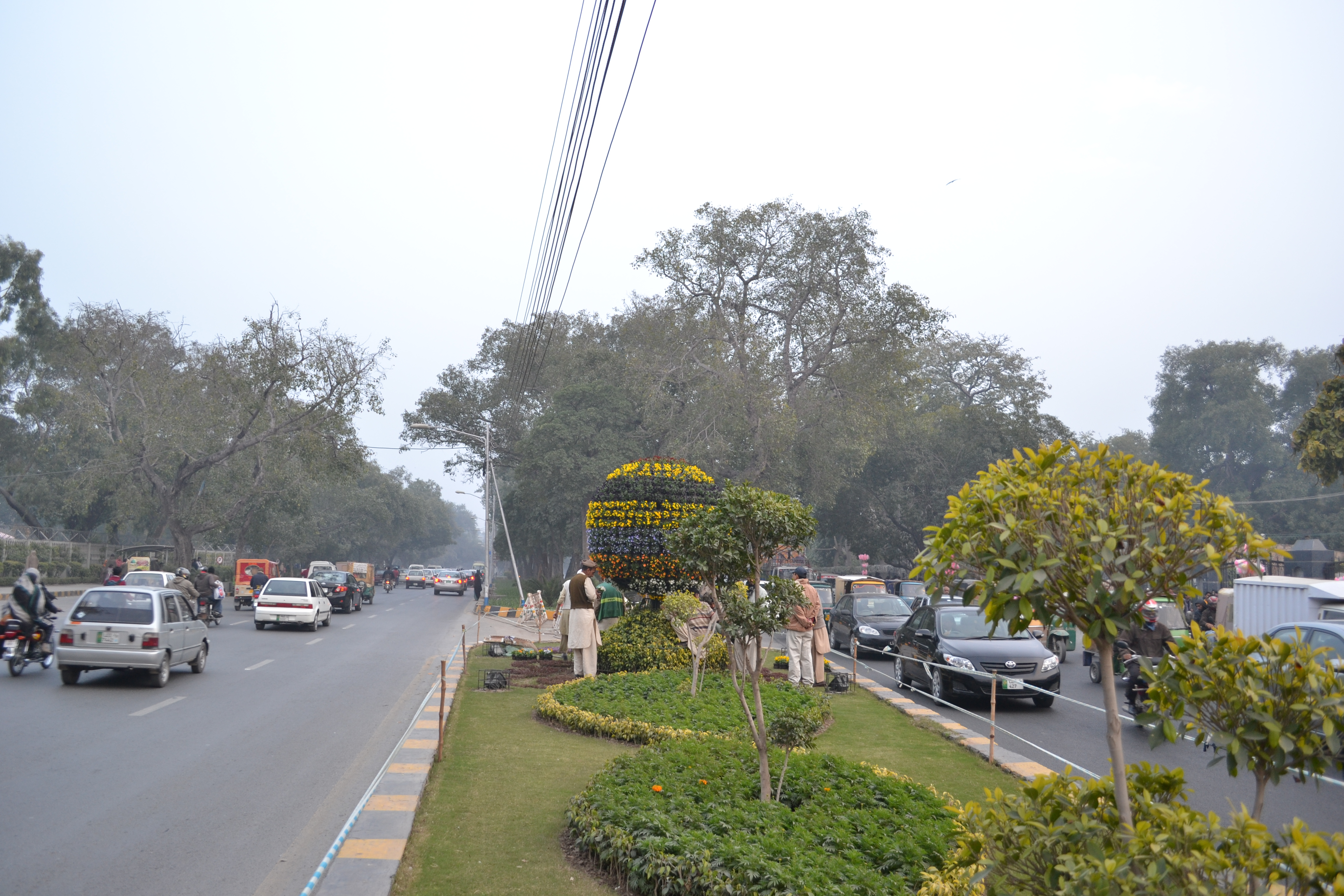 The Mall, Lahore